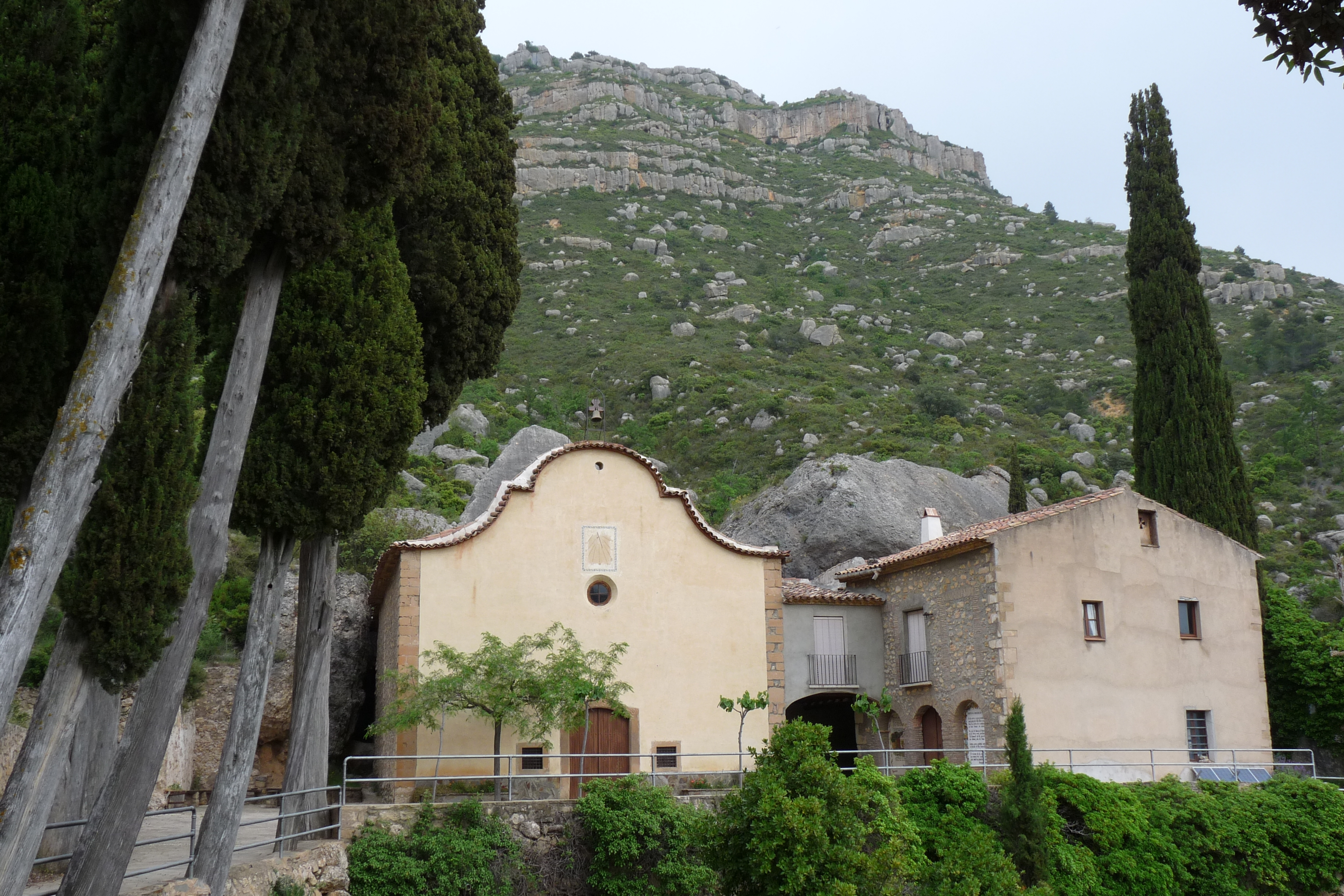 Hermitage of Sant Joan del Codolar on the lap of the Montsant, Cornudella